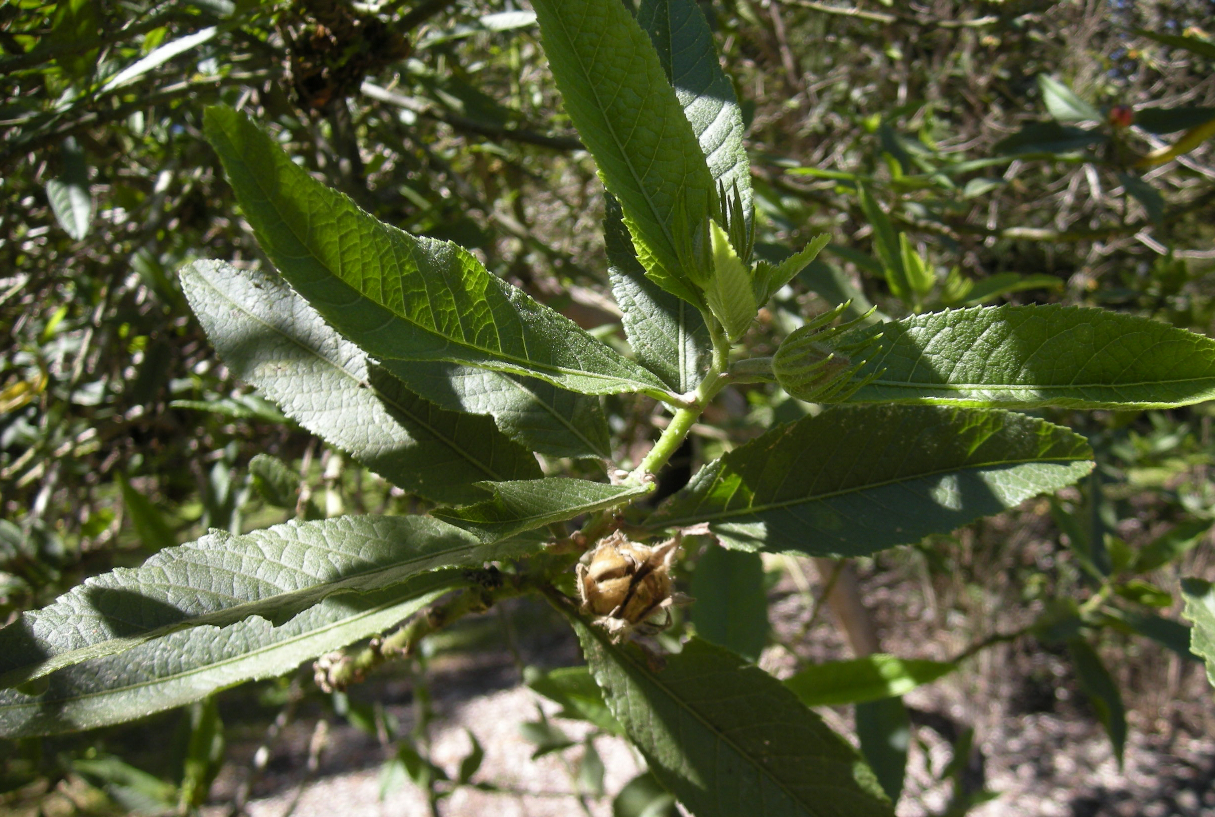 Hibiscus heterophyllus foliage and open seed capsule. Mount Archer National Park, Rockhampton, Central Queensland.